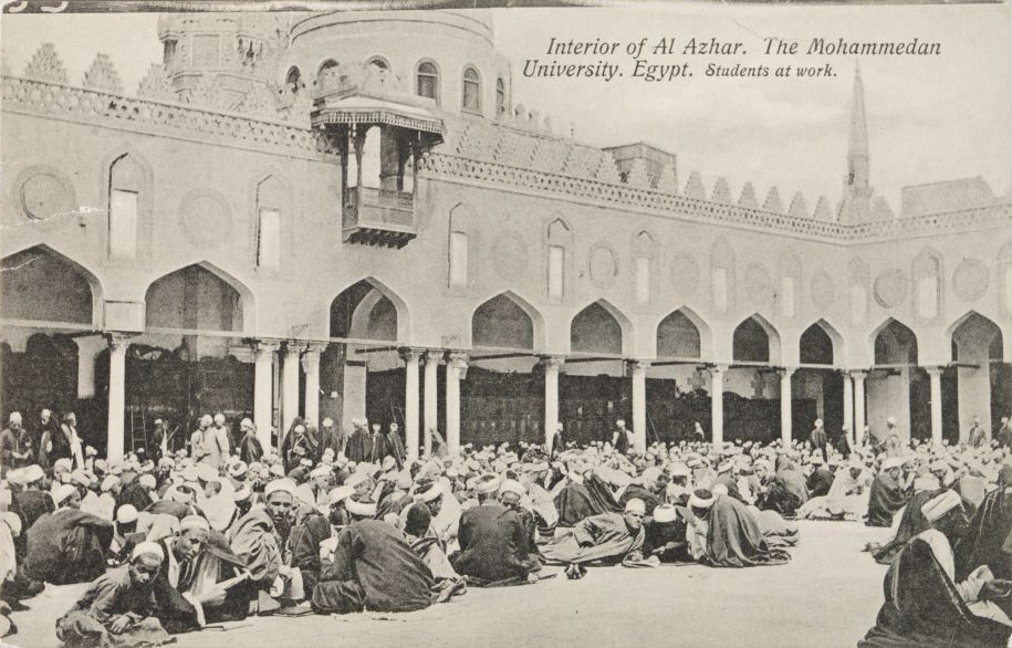 Lots of students sitting in a courtyard